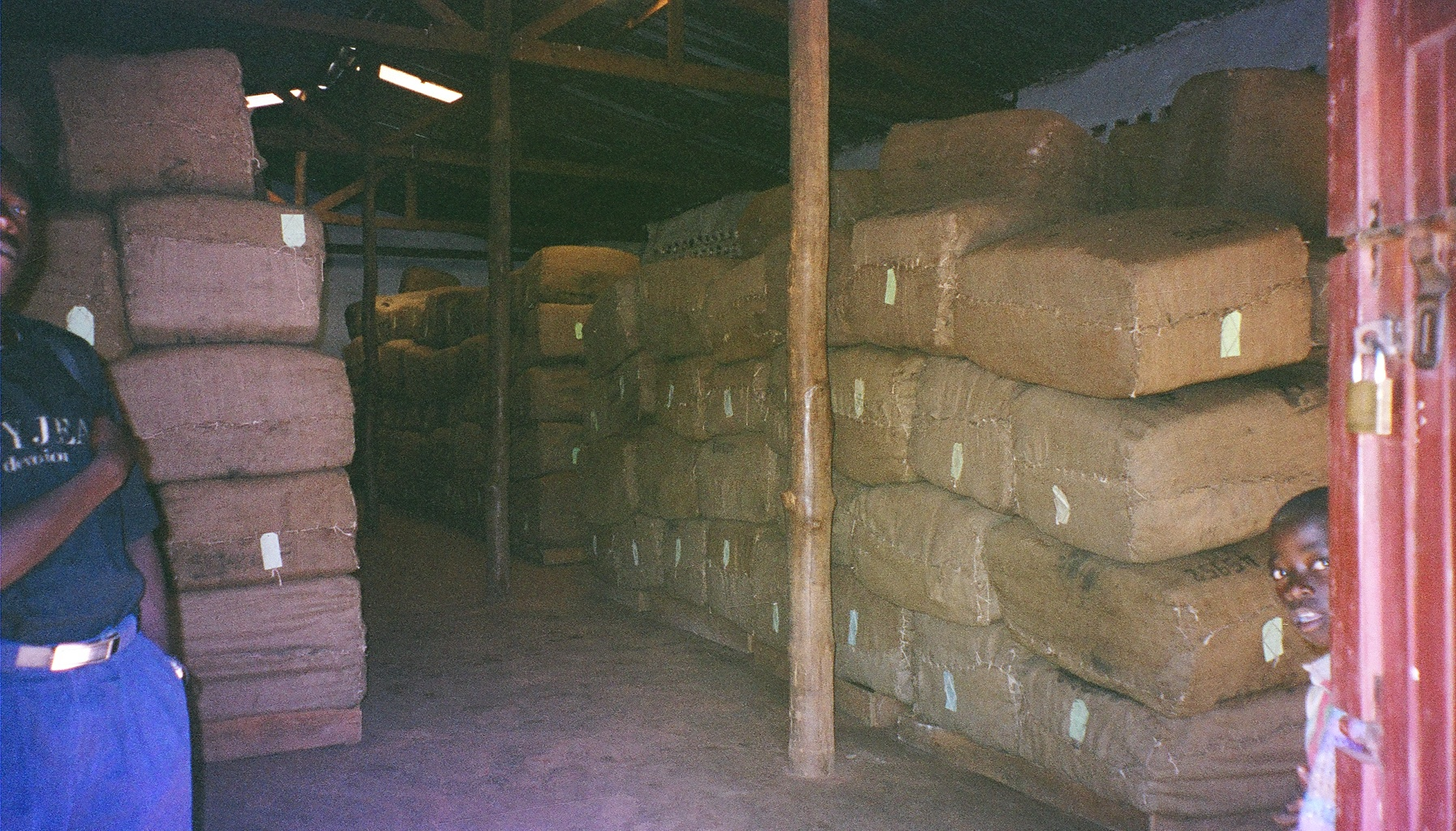 The main export of Malawi is Tobacco (which is severely hurt by the anti-smoking movement in the rich countries; if you want to help them, smoke!). This is the village warehouse.